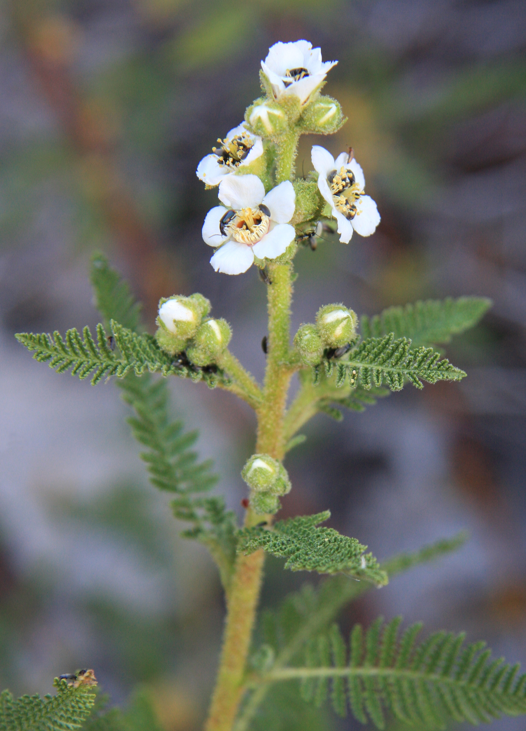 Desert sweet (Chamaebatiaria millefolium) — beloved of bugs, showing finely divided leaves and flowers with 5 rounded petals and a dense ring of stamens. Along Methuselah Trail in the Ancient Bristlecone Pine Forest of the Inyo National Forest, in the White Mountains, eastern California.